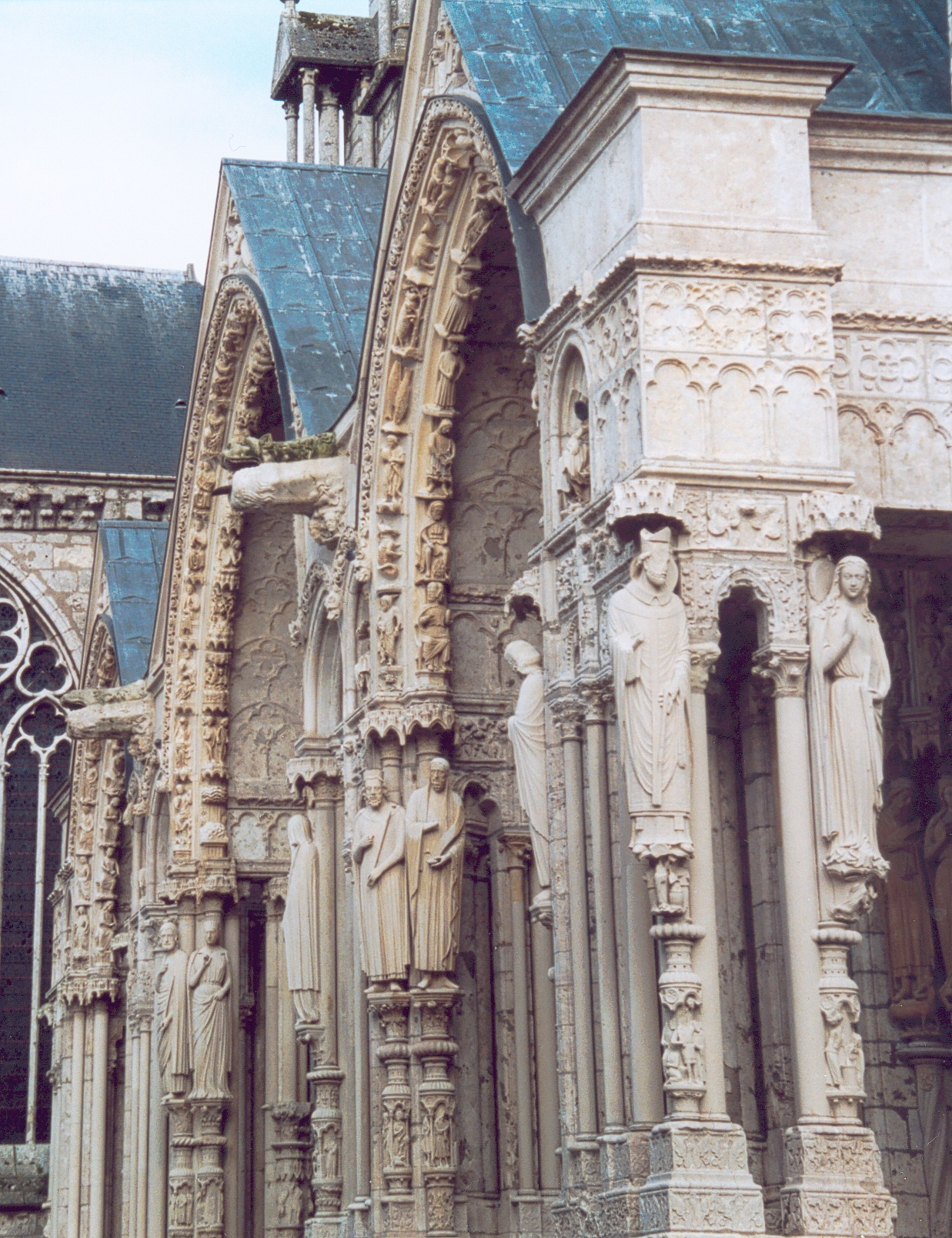 France: Cathedral of Chartres (Eure et Loir): North porch